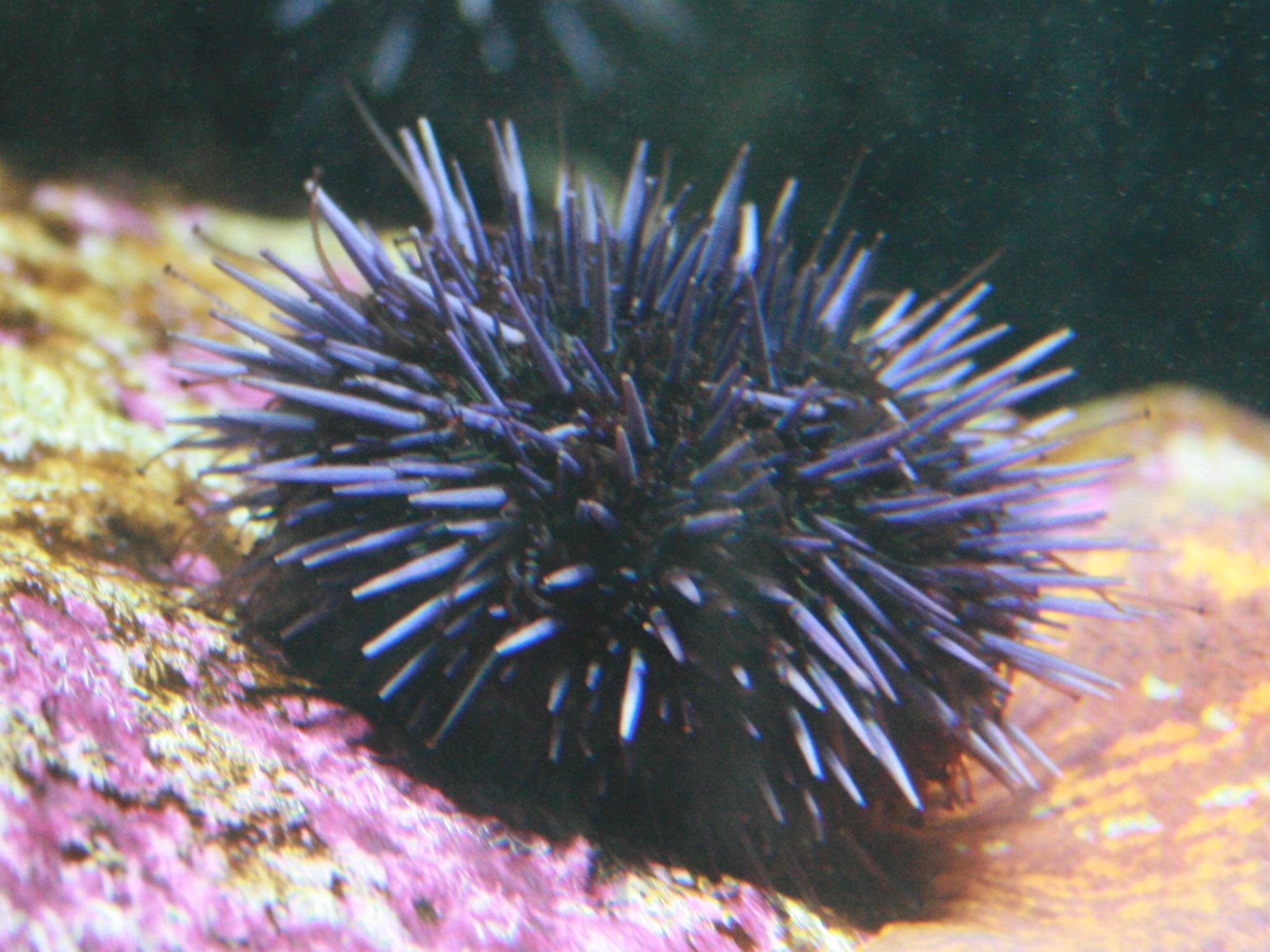 Strongylocentrotus purpuratus in the California Academy of Sciences